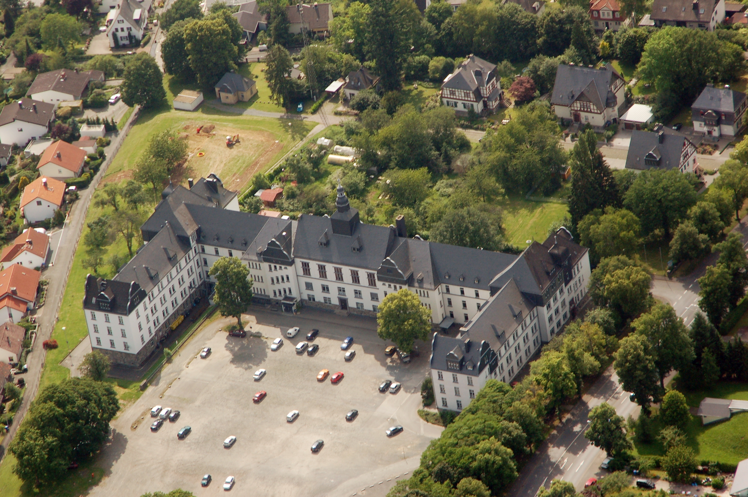 Aerial photograph of Weilburg, Hesse, Germany